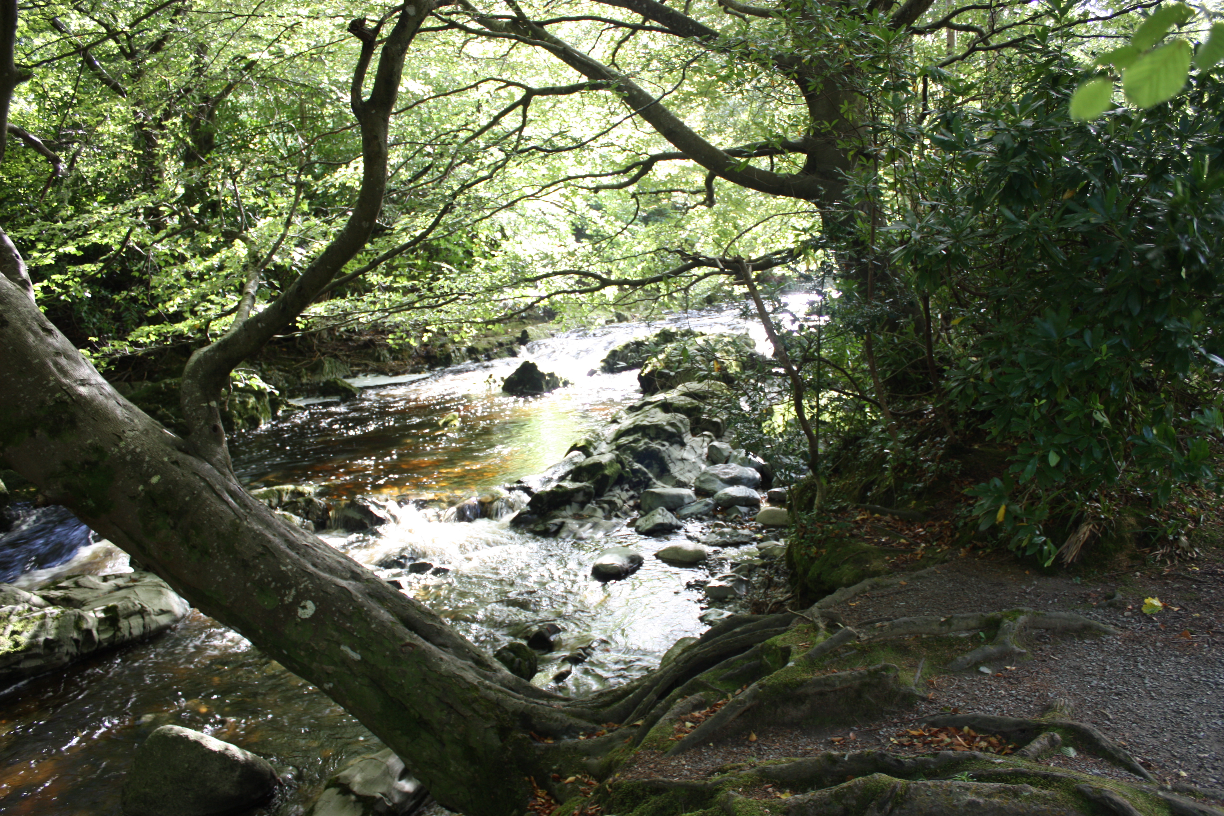 Shimna River, Tollymore Forest Park, Bryansford, County Down, Northern Ireland, September 2010